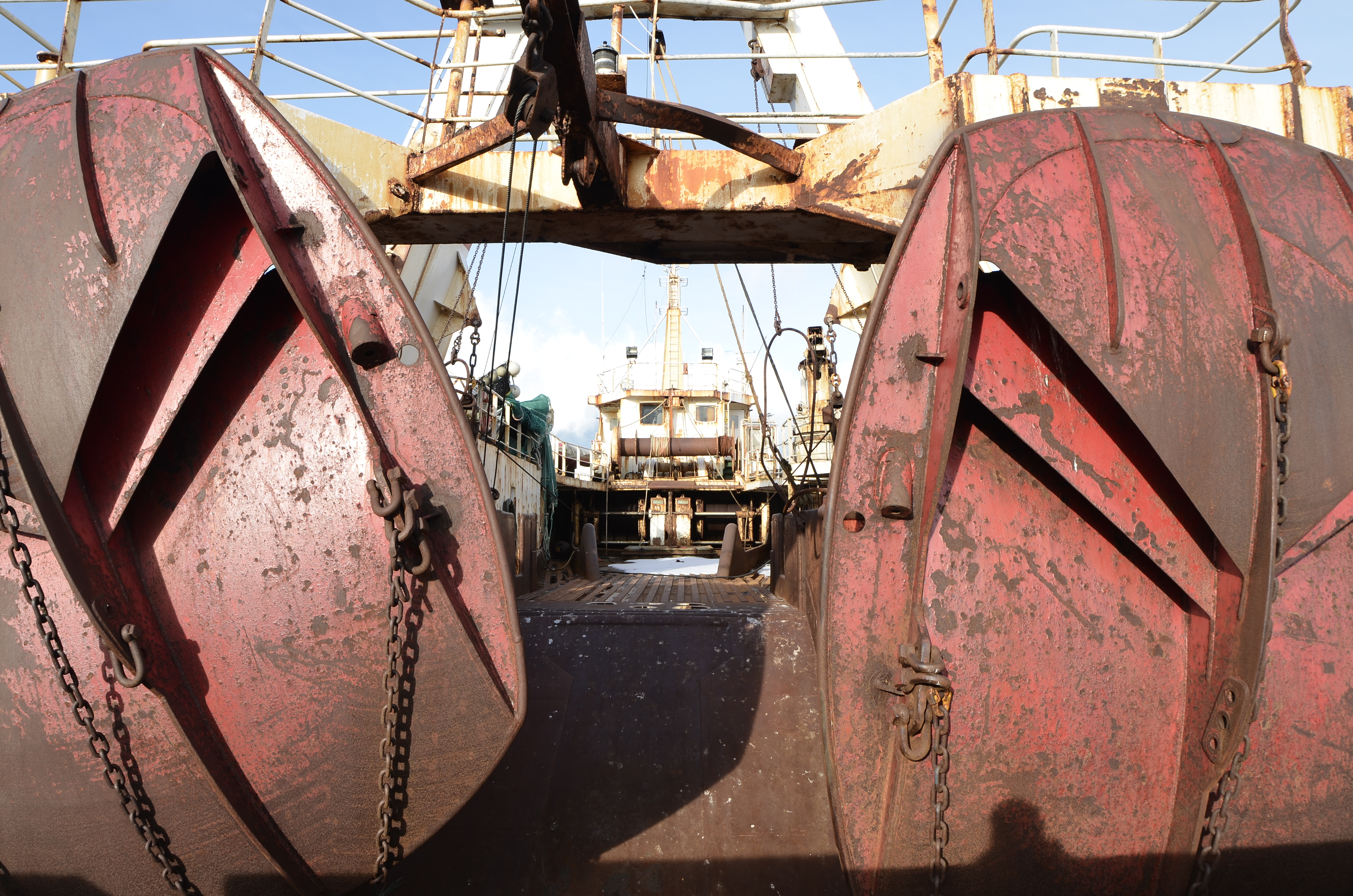 Sterntrawler